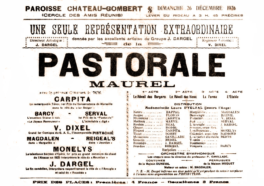 Poster Pastorale Maurel 1926